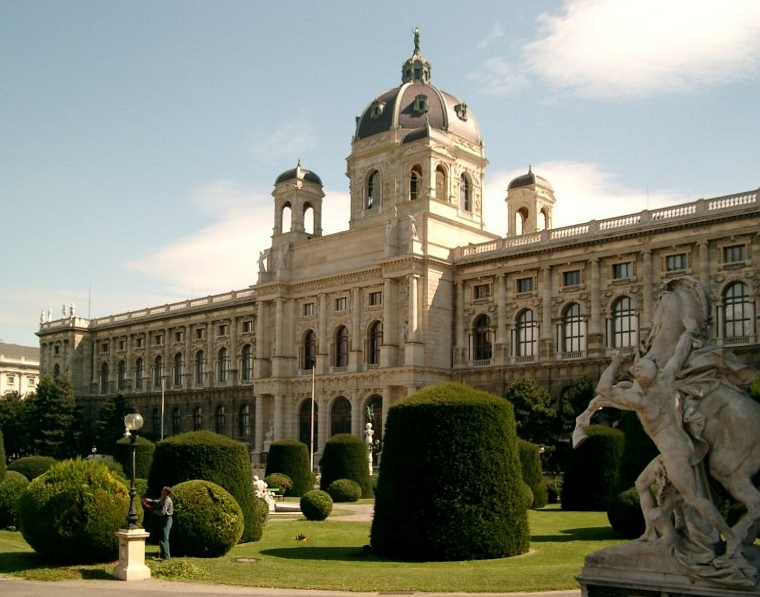 Austria, Vienna, Kunsthistorisches Museum